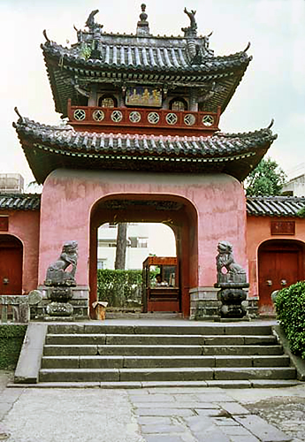 Gate at Sōfuku-ji, a Buddhist temple in Nagasaki, Japan. I took this photo and contribute my rights in the file to the public domain.